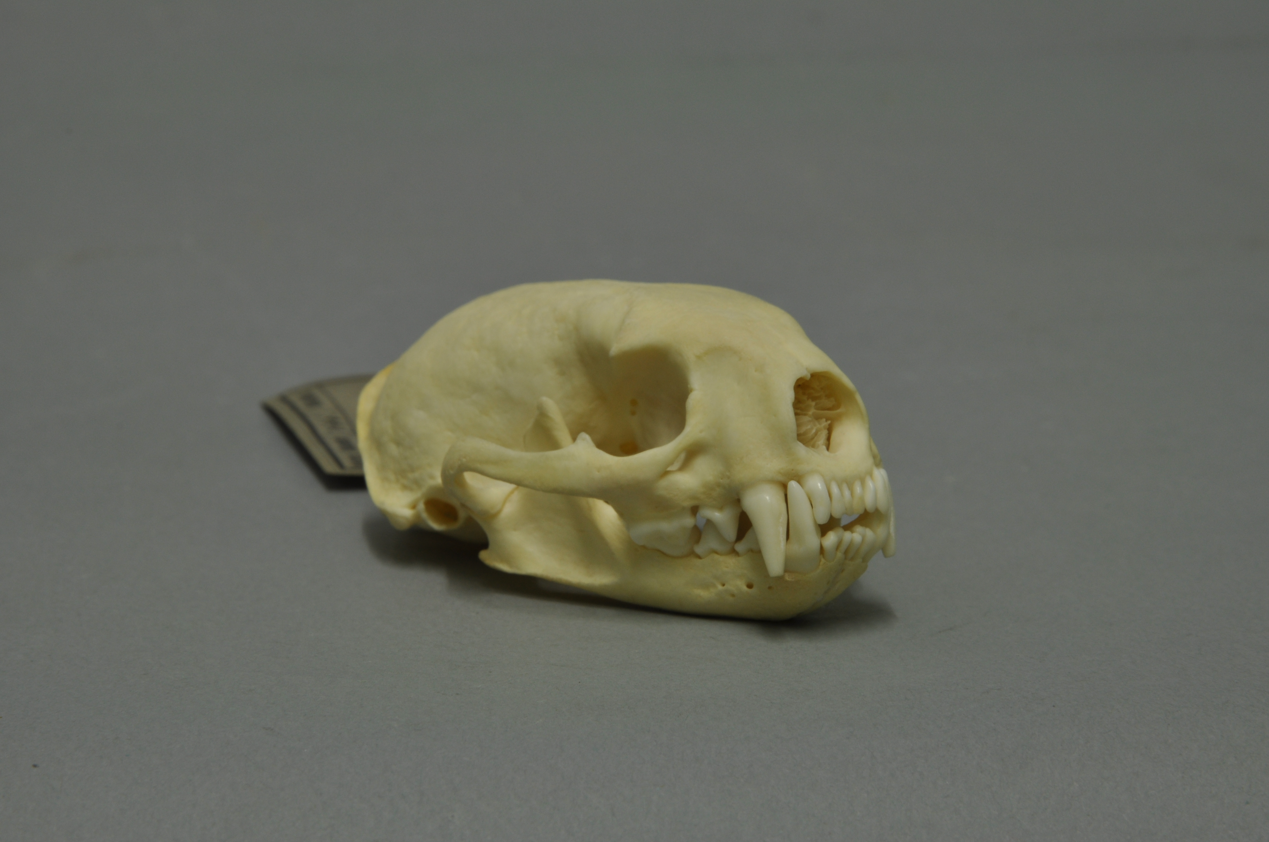 Greater grison Galictis vittata, skull, Coll. Museum Wiesbaden